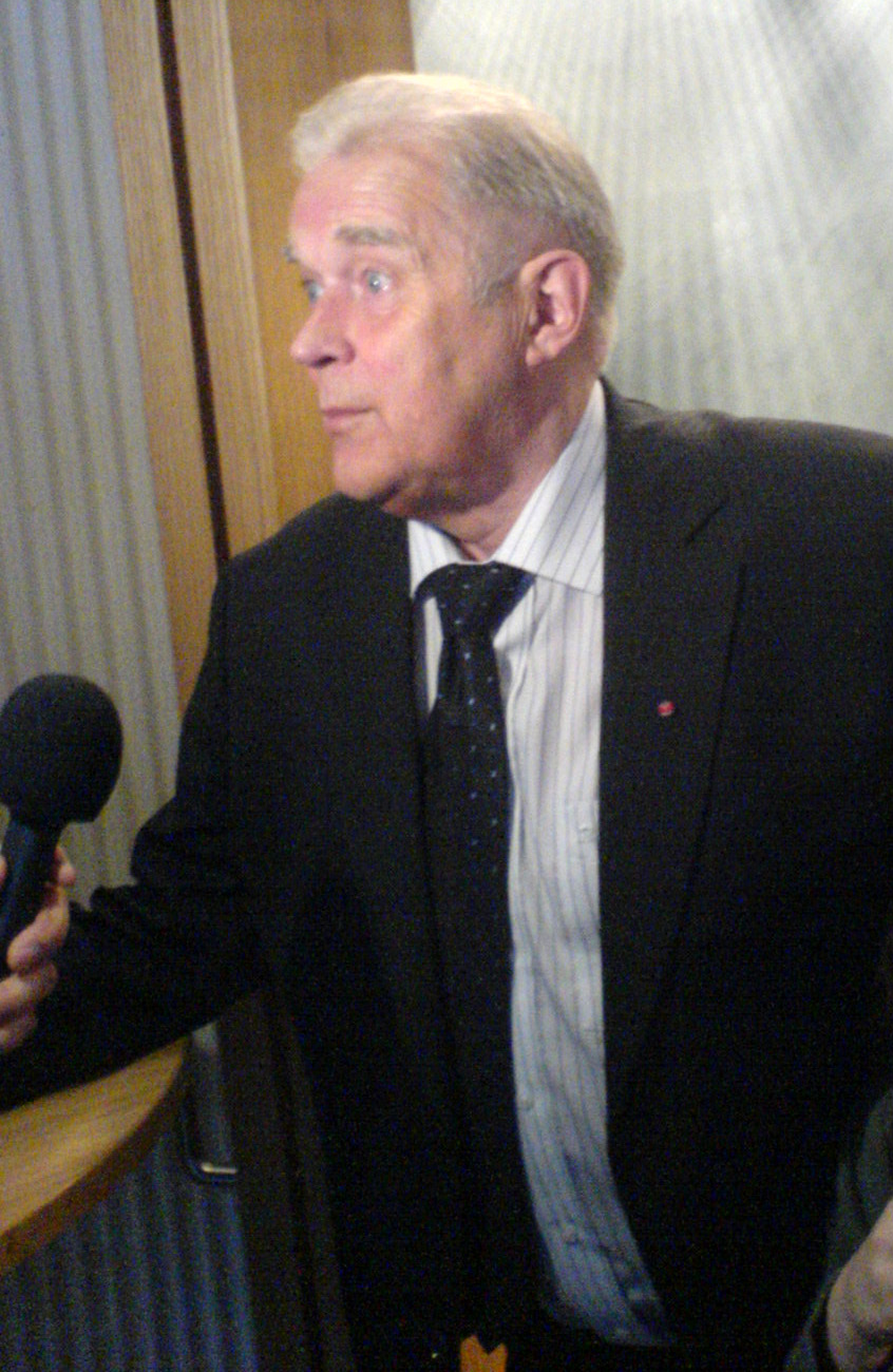 Norwegian comedian, author and journalist Arthur Arntzen